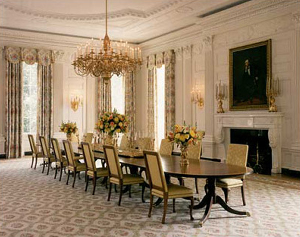 State Dining Room of the White House.